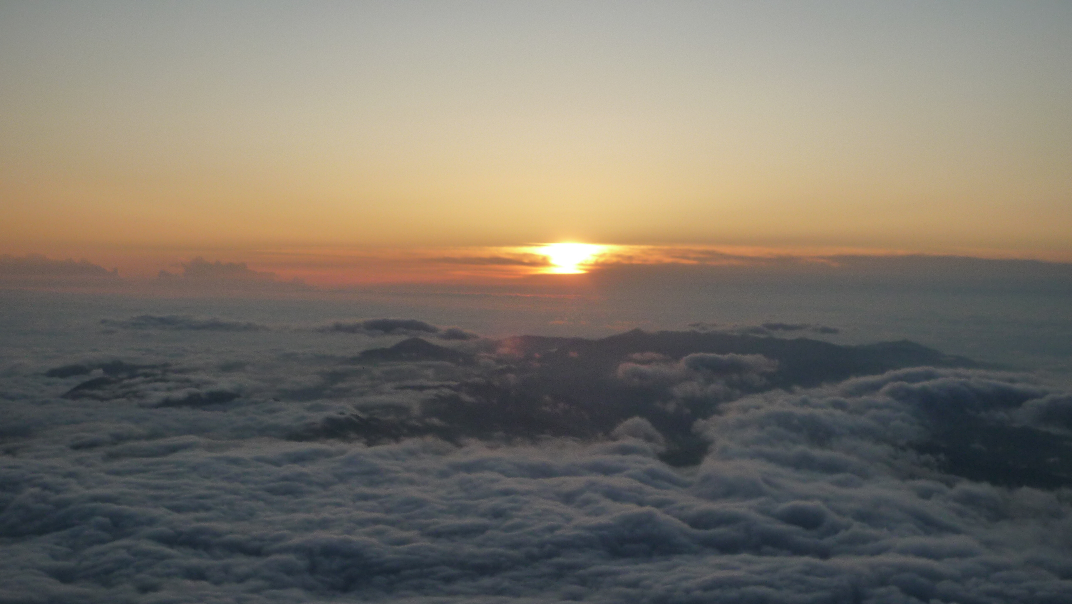 Sunrise from Mt.Fuji